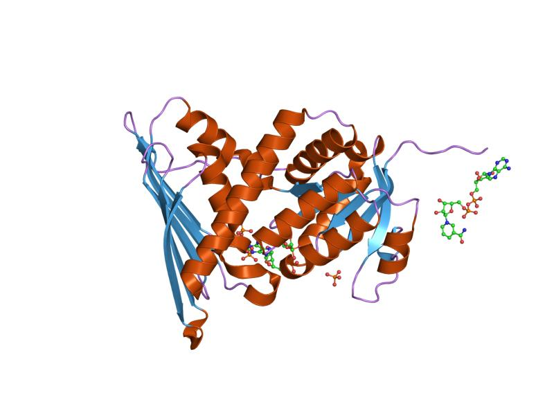 Cartoon representation of the molecular structure of protein registered with 1lc3 code.